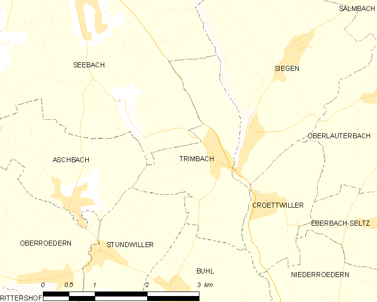 Map of French municipality